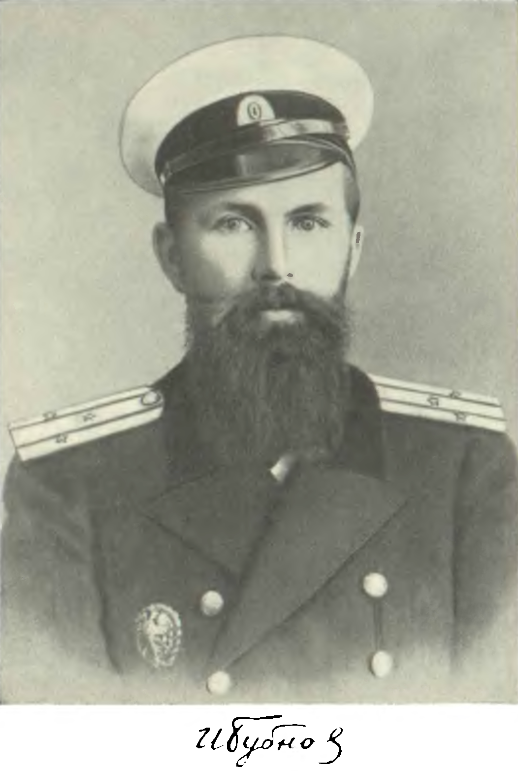 Ivan Bubnov, Russian submarine engineer and constructor.